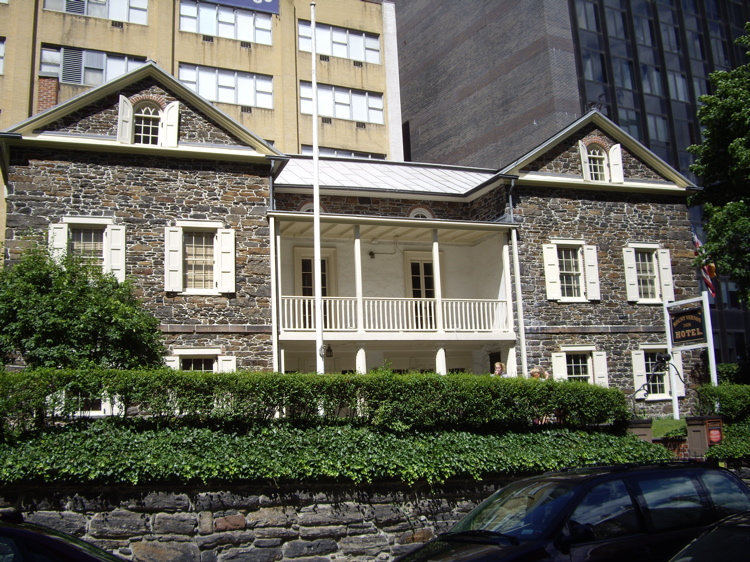 Looking northeast across 61st St Mount Vernon Hotel Museum 2007